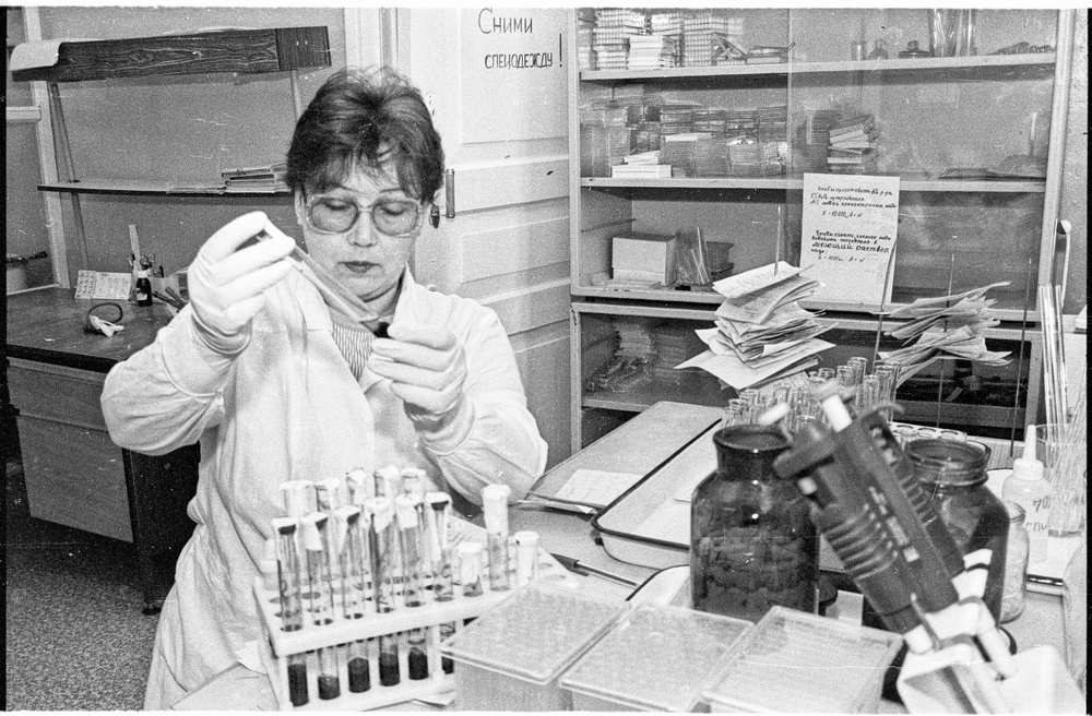 In the ELISA (Enzyme-linked immunosorbent assay) laboratory in Pereslavl.